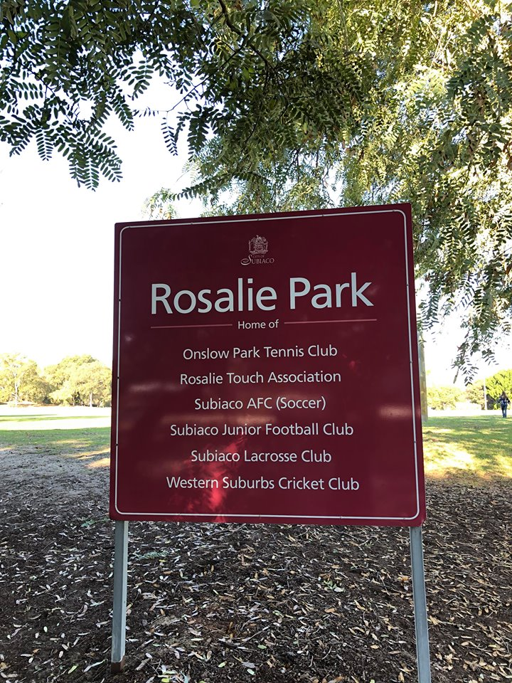 A picture of the welcome sign displayed by City of Subiaco in Perth WA Australia. The sign shows the different activities that are hosted in the park.